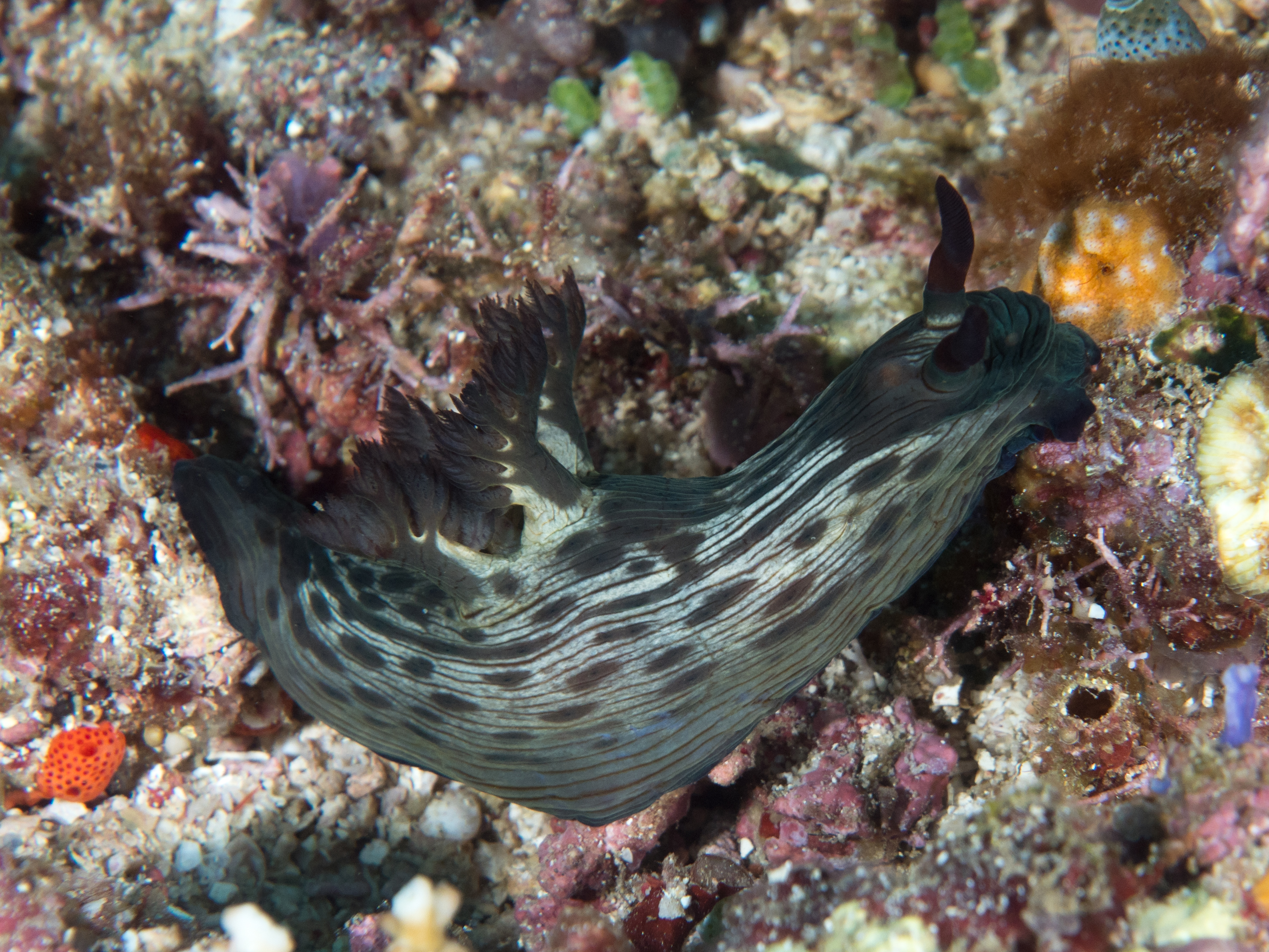 Rao, Morotai, Indonesia - Nembrotha mullineri